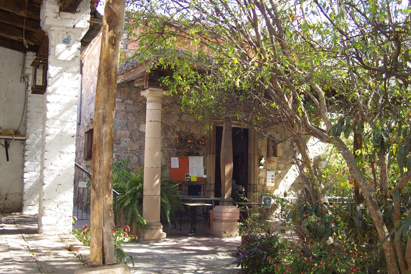 Originally the Hacienda de Santa Ana, it was the home of Canadian artist Gene Byron from 1962 to 1987. It is now a museum featuring her work. It is located in the Marfil suburb of Guanajuato, GTO, Mexico.